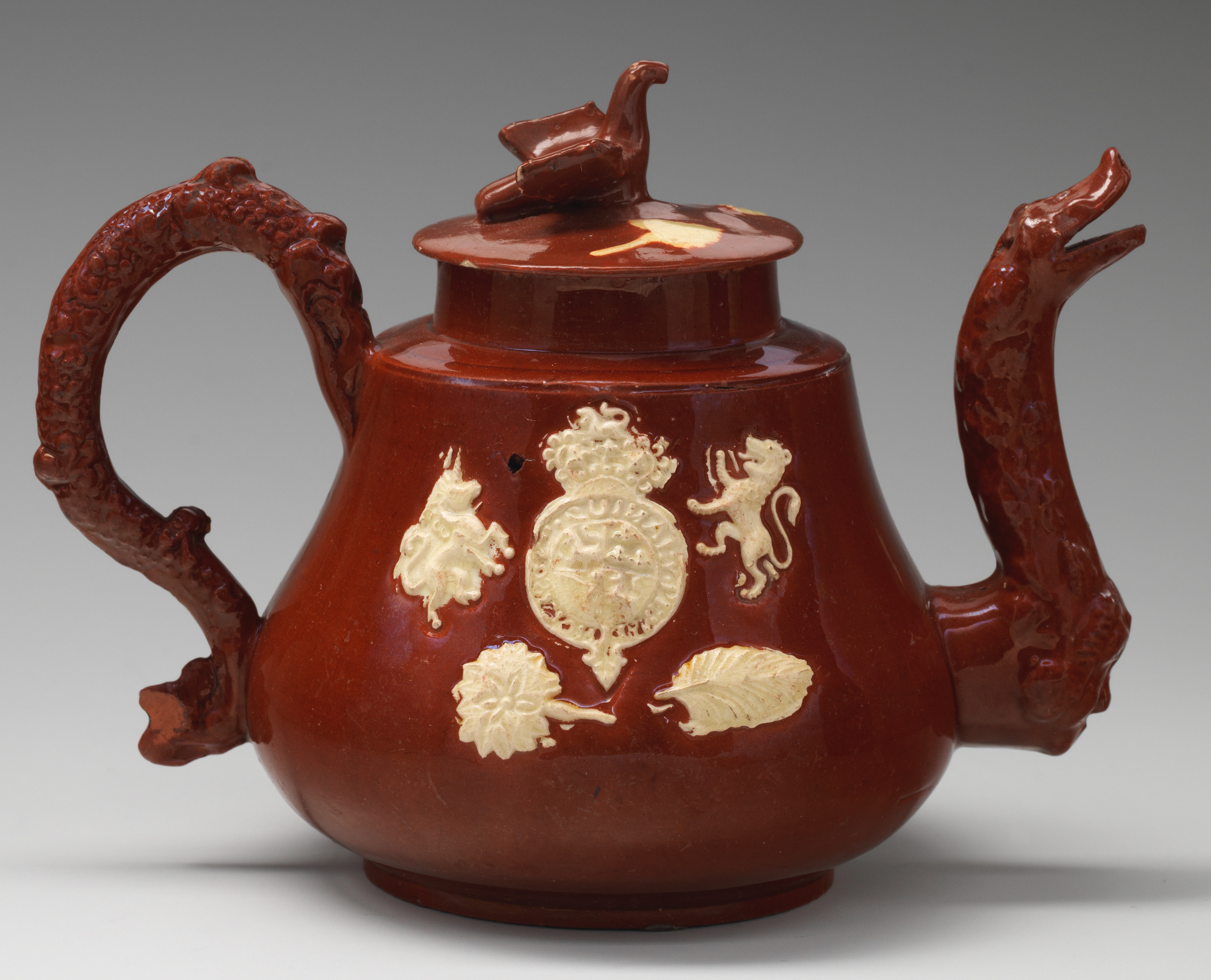 British, Staffordshire; Teapot; Ceramics-Pottery